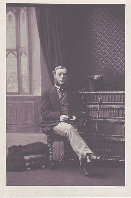 John Tremayne (1825 – 1901) was a member of a landed family in the English county of Cornwall, and owner of the Heligan estate near Mevagissey